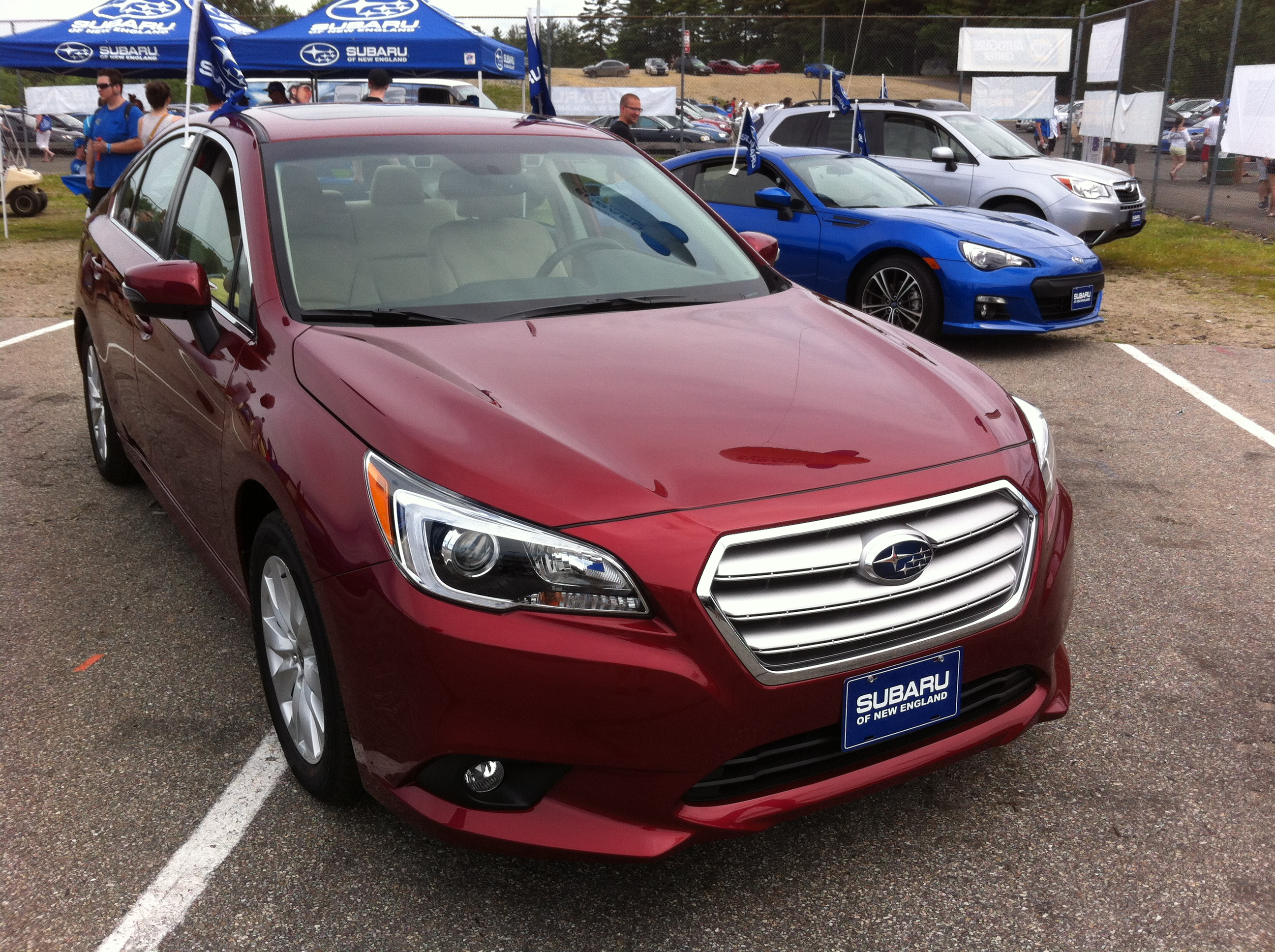 2015 Legacy